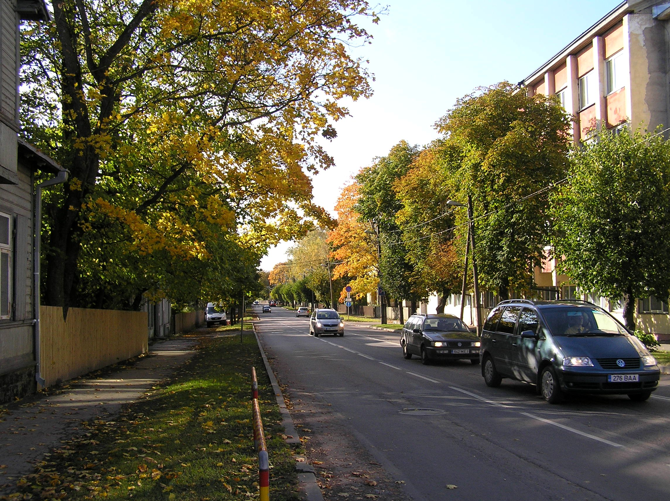 Pärnu maantee in Tallinn